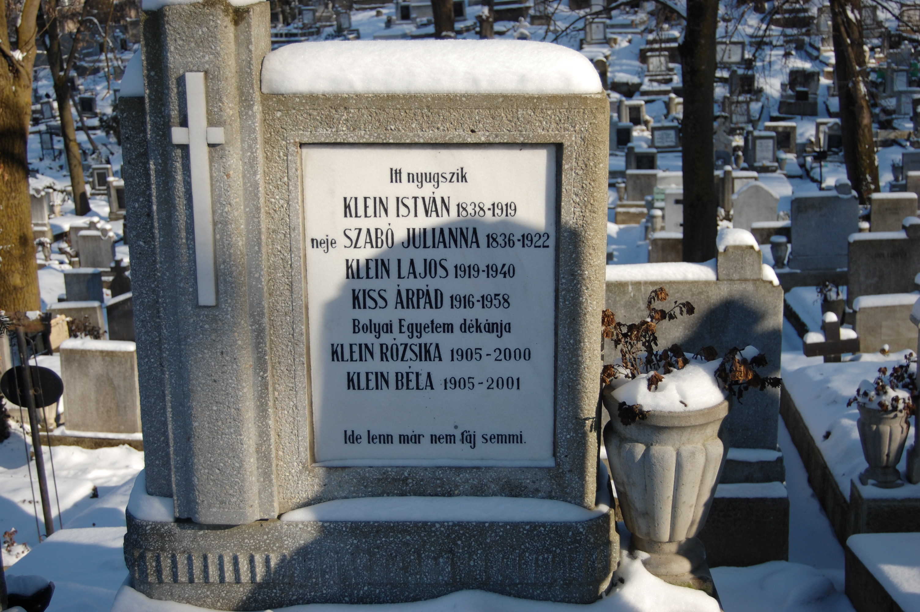 Mathematician, dean Árpád Kiss (1916-1958, Cluj